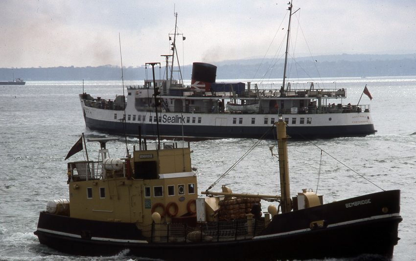 Sealink ferry Southsea passing naval auxiliary vessel Bembridge at entrance to Portsmouth Harbour IMO: 5335838 Information about Southsea (ship, 1948) may be found at IMO 5335838.A ship can change name and flag state through time, but the IMO number remains the same through the hull's entire lifetime. As a result, it can be useful to identify a ship by using the IMO number. Scanned from a Kodachrome 35mm slide.